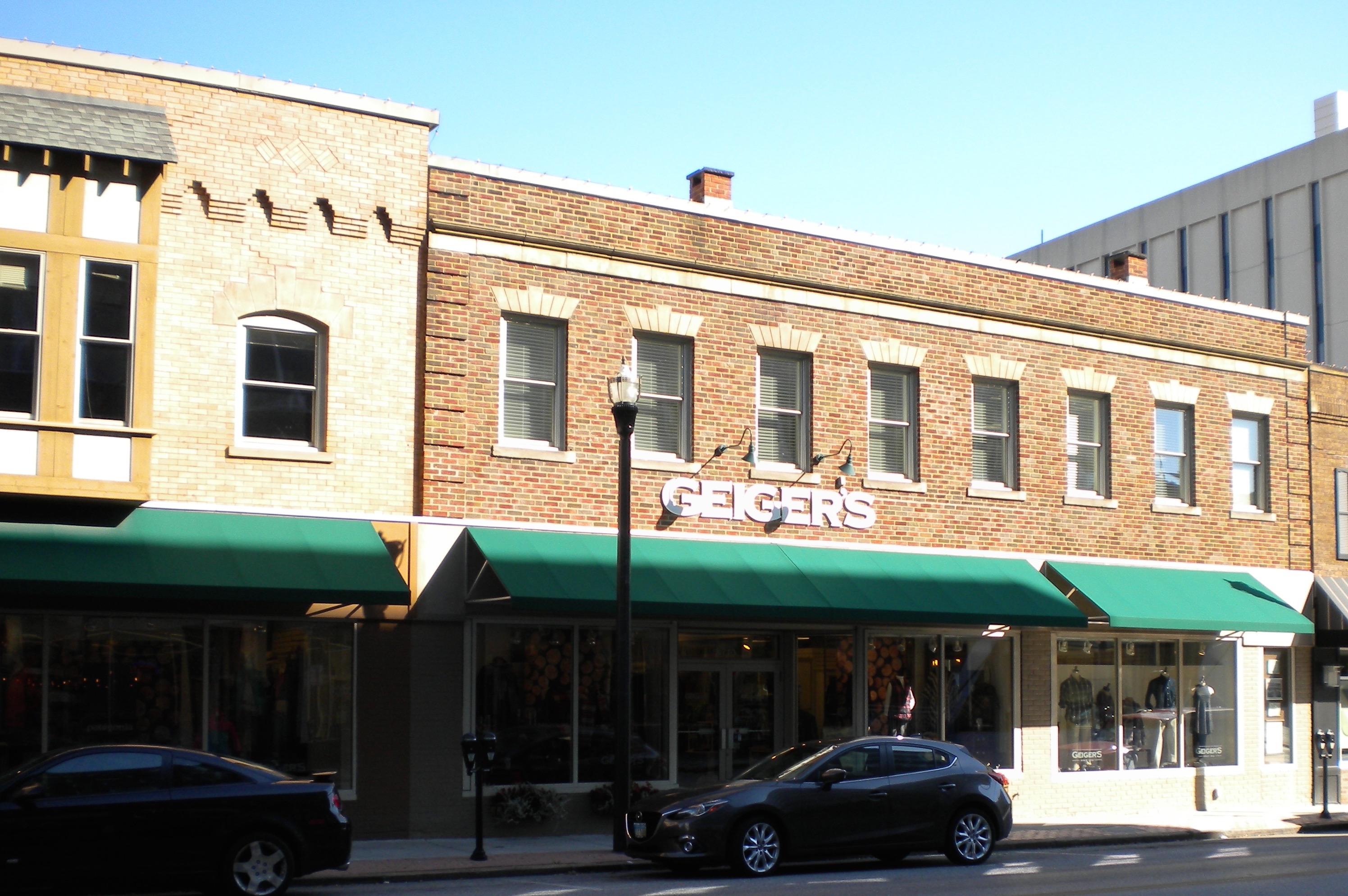 Photo of Geiger's HQ and retail store